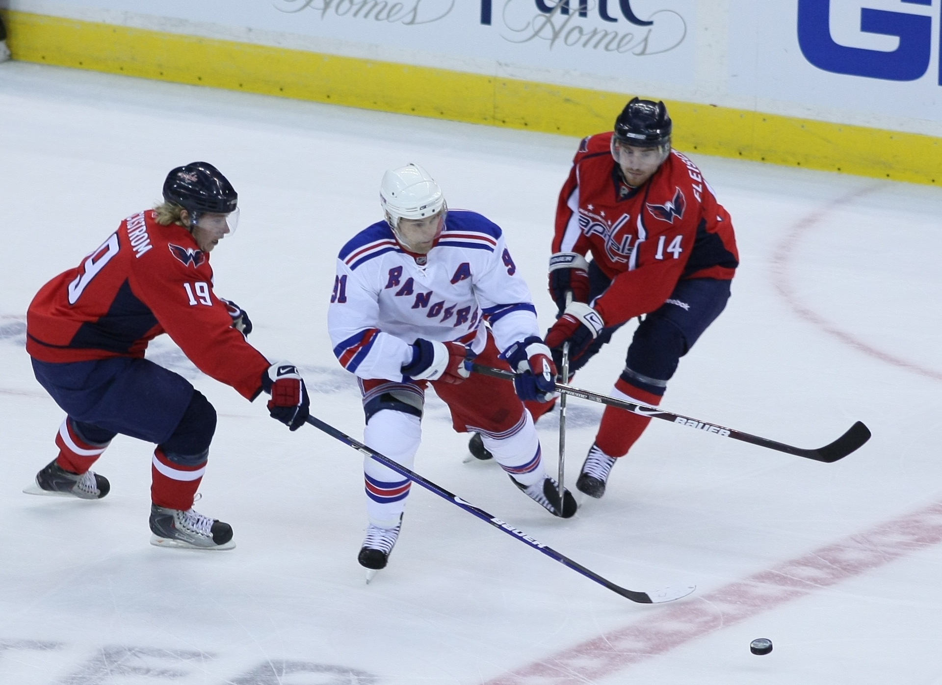 New York Rangers forward Markus Naslund stickhandles through two opposing Washington Capitals players.